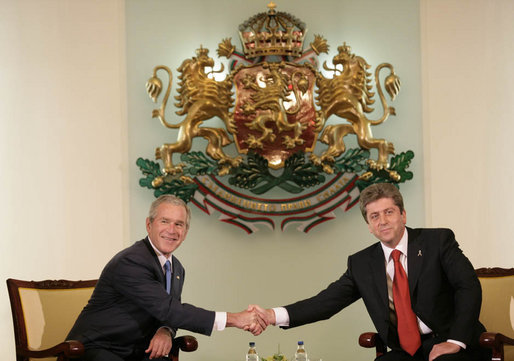 Bulgarian President Parvanov and US President Bush beneath the Bulgarian Coat of Arms